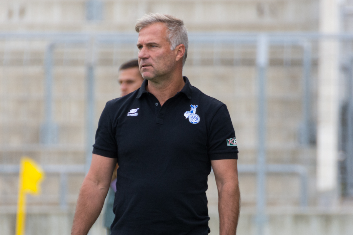 Thomas Gerstner at FC Bayern vs MSV Duisburg